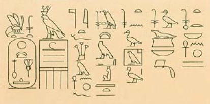 Inscription of Neferhotep I from Aswan, drawn by Karl Richard Lepsius. The inscription records the members of Neferhotep's family: his father Haankhef, his mother Kemi, his brother Sihathor, his brother Sobekhotep and the royal acquaintance Nebankh.